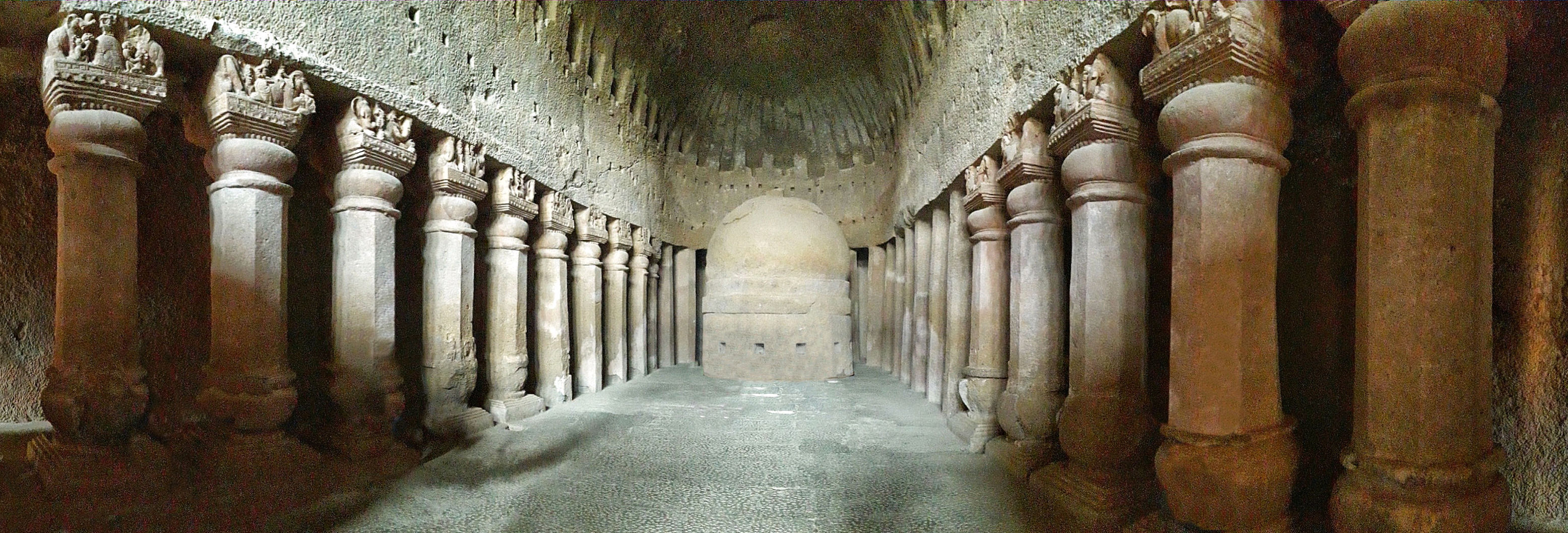 Kanheri Great Chaitya panorama